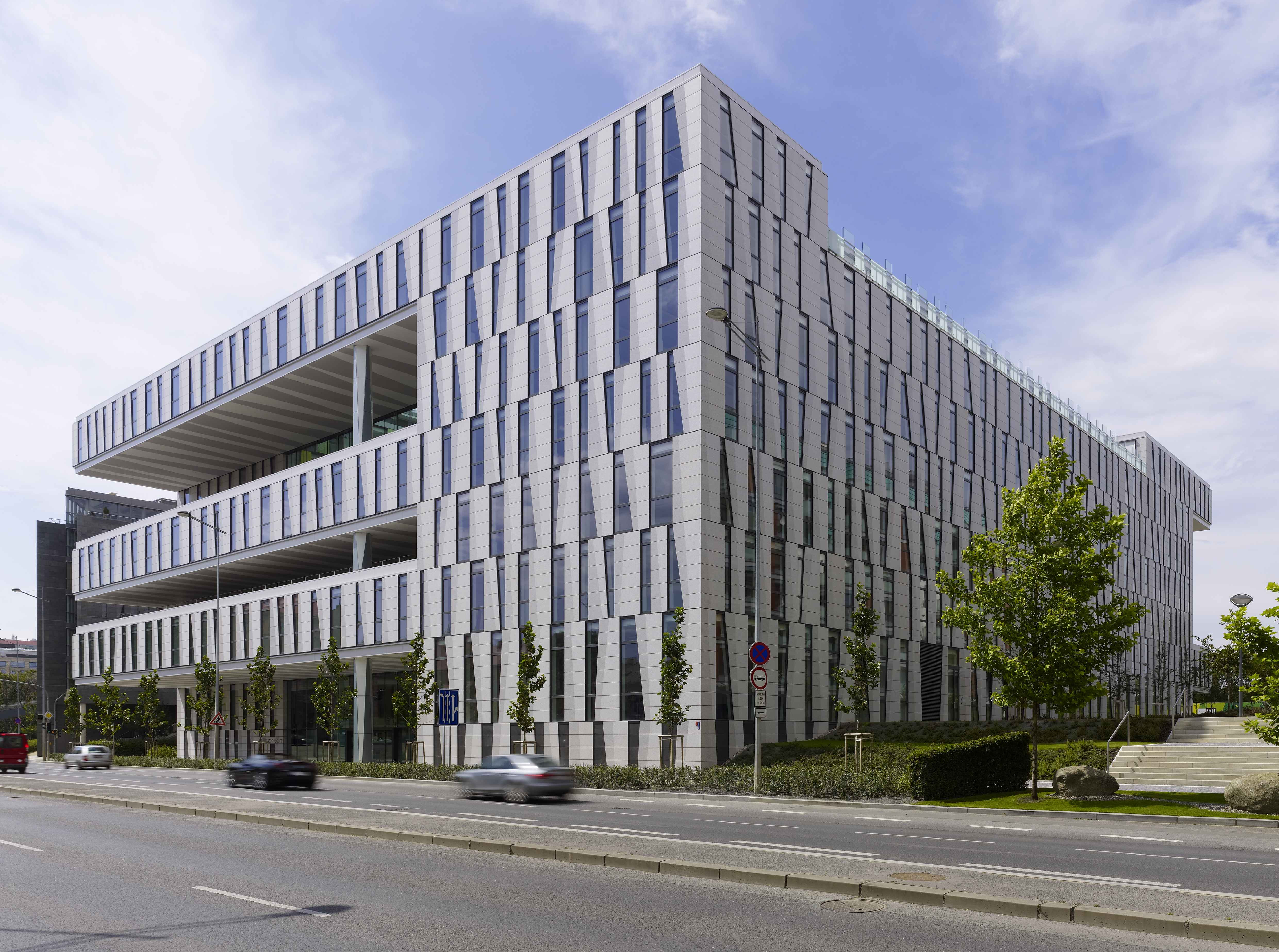 Amazon Court Česky: Amazon Court